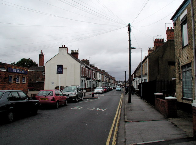 The Beautiful South. Grafton Street in Hull, where the band The Beautiful South were formed from the wreckage of The Housemartins. Front man Paul Heaton used to live here and the Grafton Hotel (left of picture) was a favourite watering hole for both bands, providing inspiration for some of their lyrics. The Beautiful South's 1989 album 'Choke' contains a track called 'The Rising of Grafton Street'.